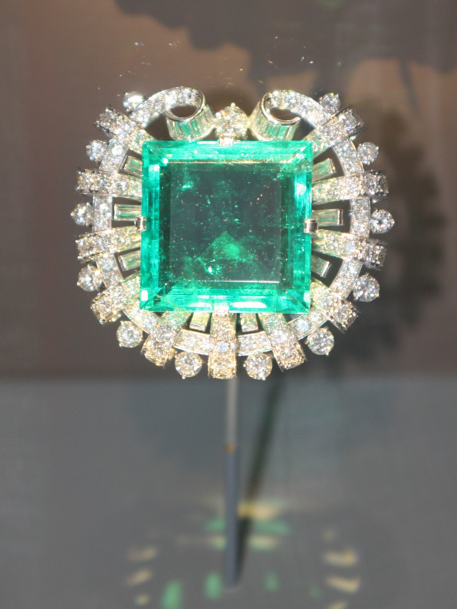 This superb 75.47carat Colombian emerald was once the property of Abdul Hamid II, Sultan of the Ottoman Empire (1876-1909), who wore it on his belt buckle. Tiffany & Co. acquired the emerald in 1911 and initially set it into a tiara. In 1950, it was mounted in its current brooch setting. Mrs. Janet Annenberg Hooker purchased the brooch from Tiffany in 1955, and in 1977 she donated it to the Smithsonian Institution. The Hooker Emerald is a beveled square-cut gem that exhibits exceptional color and clarity for an emerald of its size. In its platinum setting it is surrounded by 109 round and 20 baguette cut diamonds, totaling approximately 13 carats.